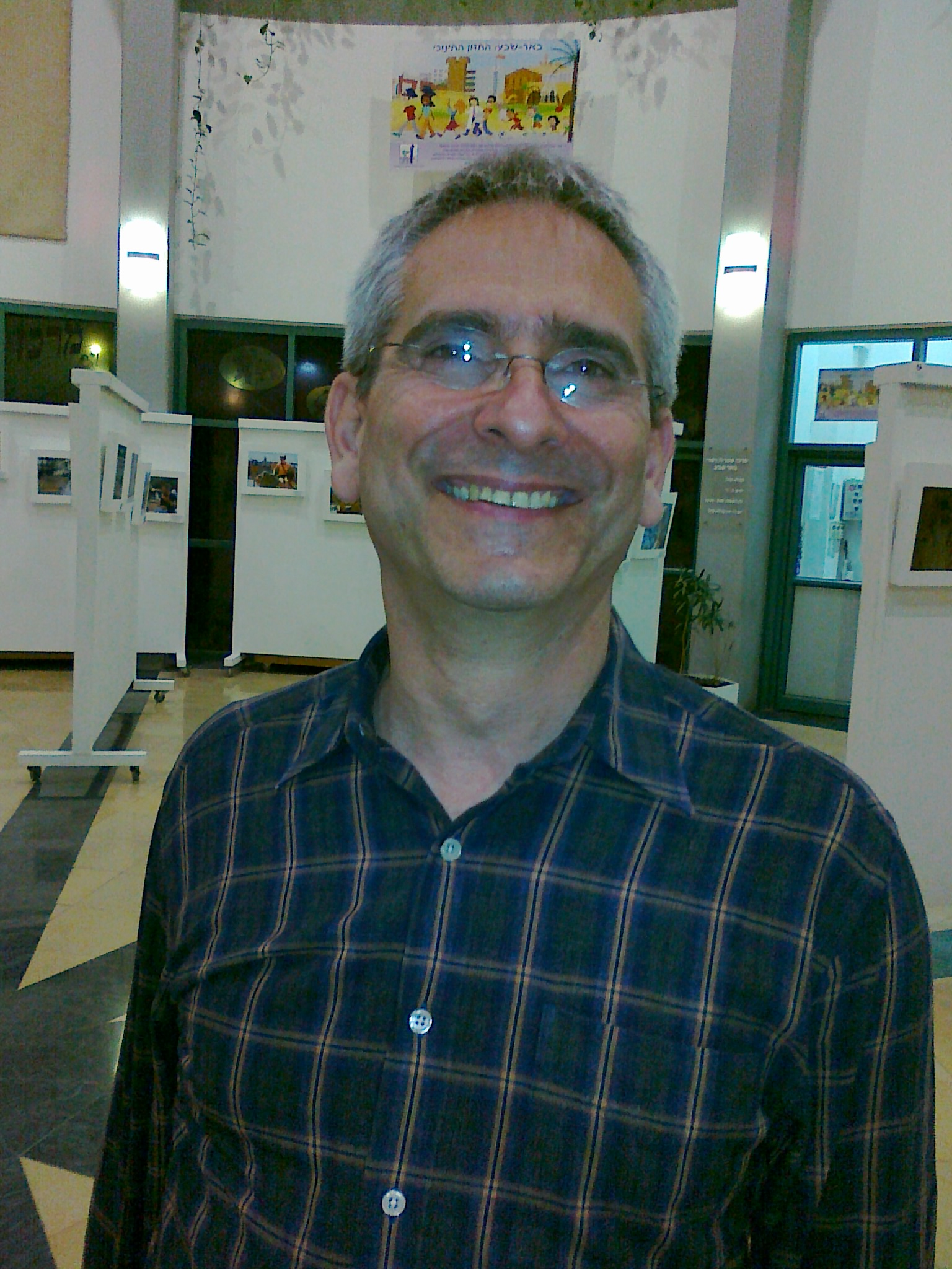 Steven Greenberg gives a lecture in Beersheba, 2013